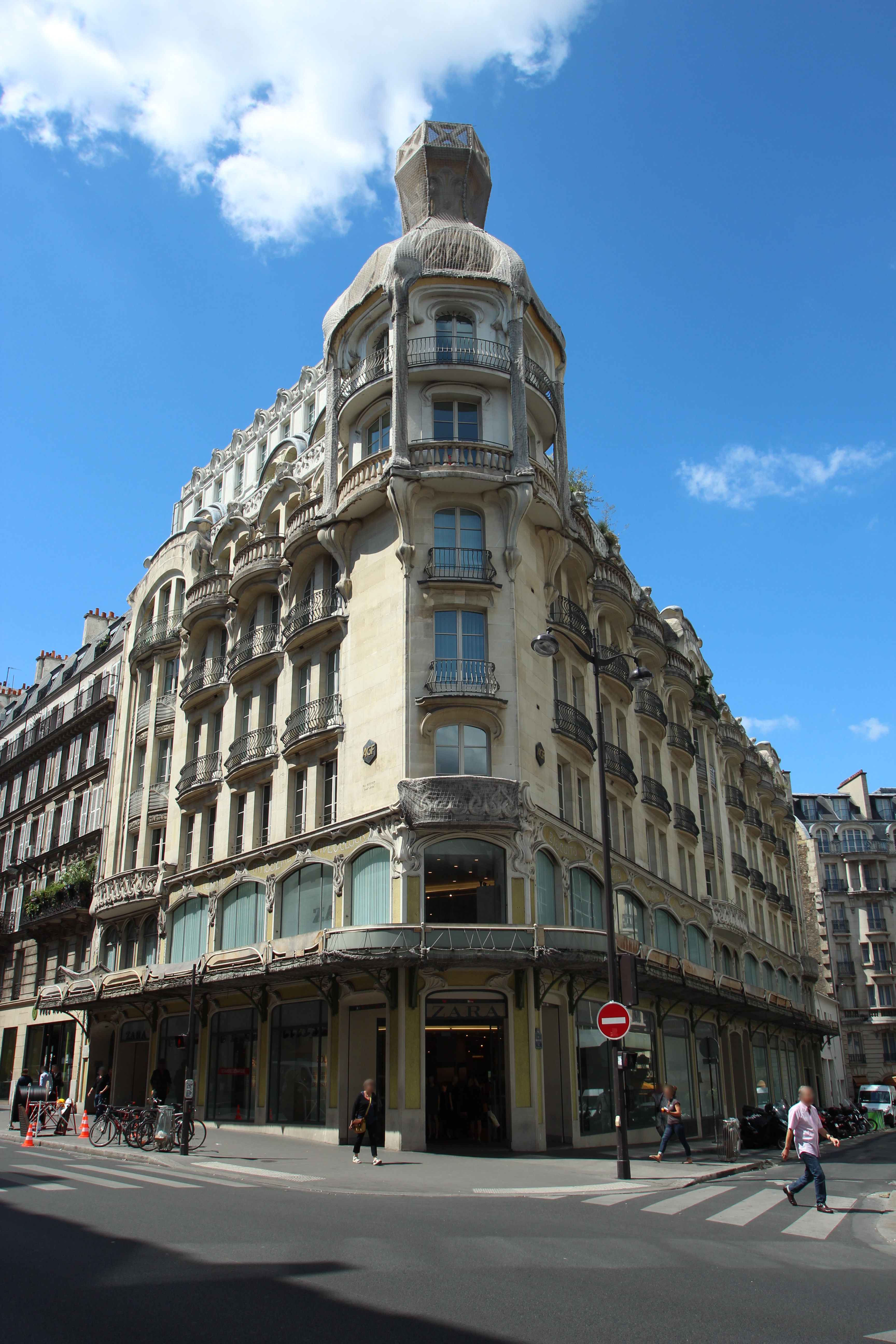 Building of the old Felix Potin store at 140 Rennes street in Paris, France. . Object location48° 50′ 44.12″ N, 2° 19′ 31.04″ E